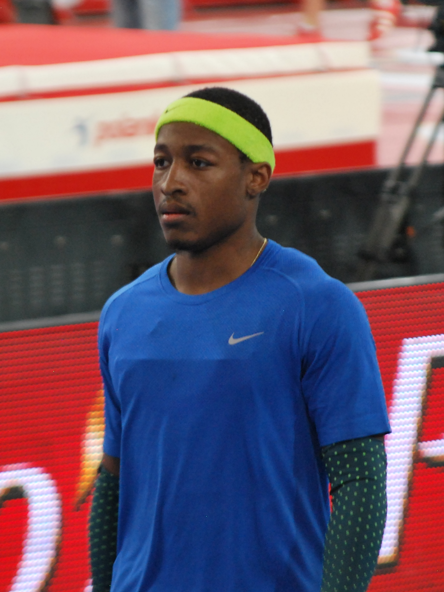 Pedros Cup 2015 Łódź, Mike Rodgers, sprinter from the USA